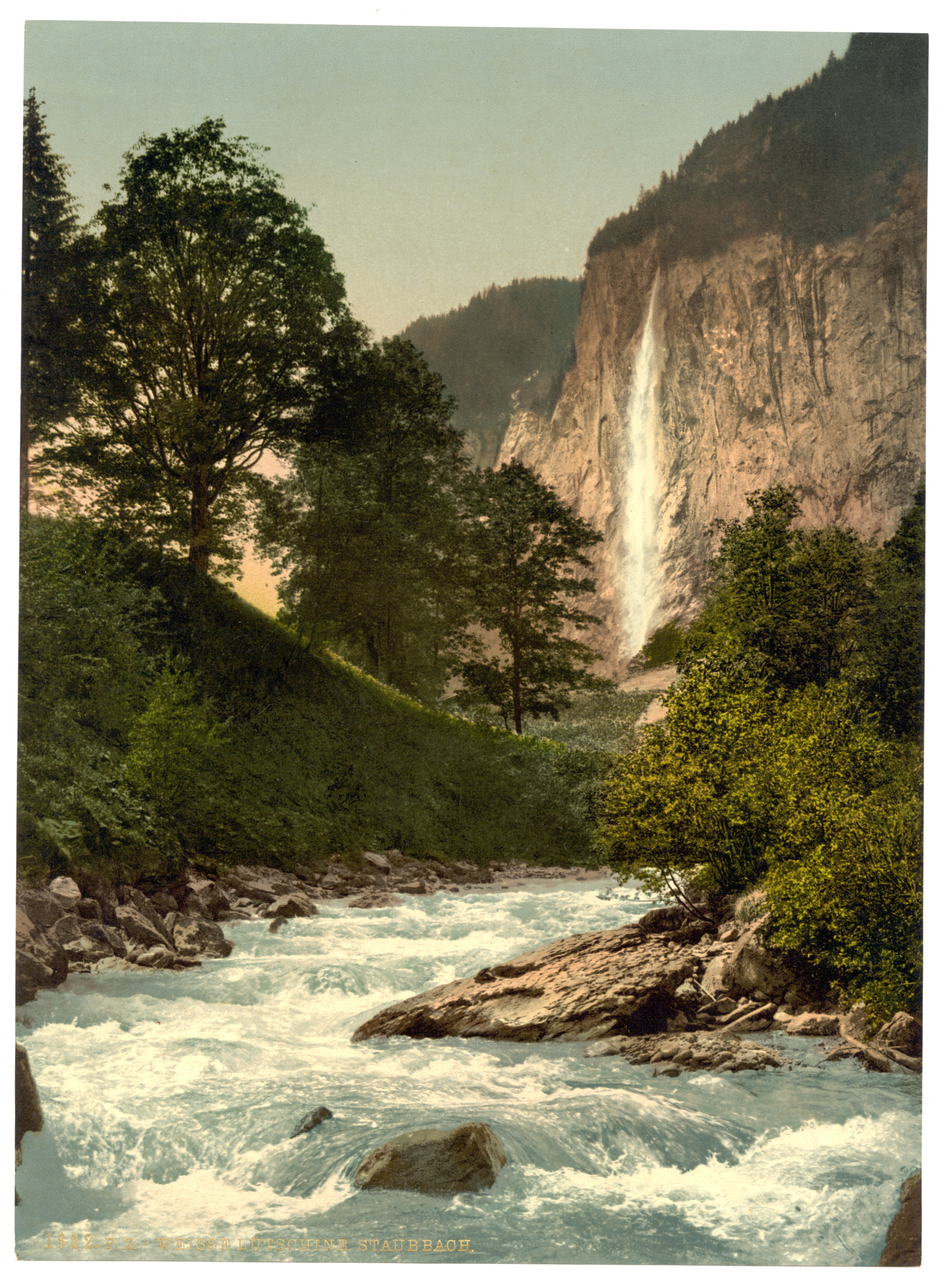 Print no. "1622".; Title from the Detroit Publishing Co., Catalogue J-foreign section, Detroit, Mich. : Detroit Publishing Company, 1905.; Forms part of: Views of Switzerland in the Photochrom print collection.